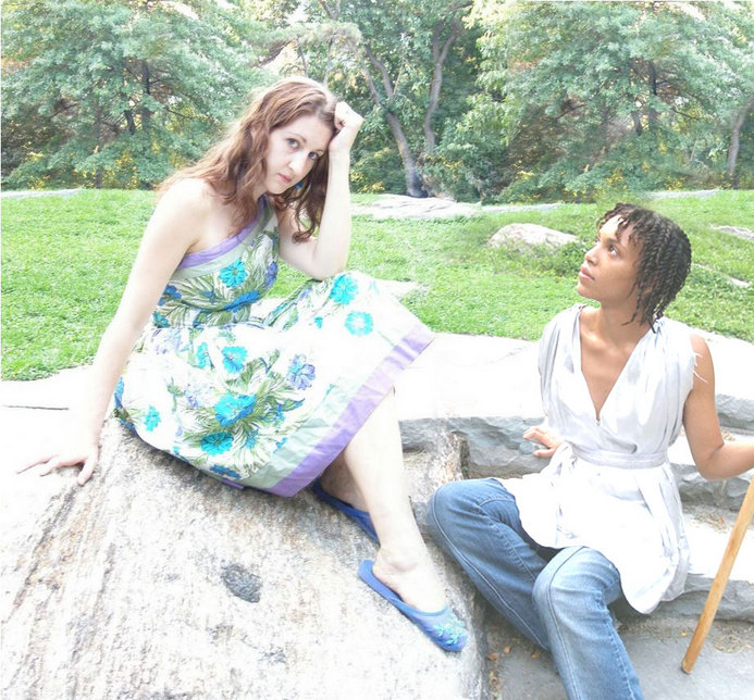 Private photo taken at the photoshoot for the Central Park production of Lysistrata